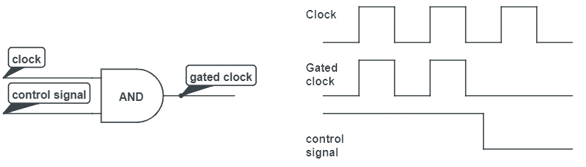 Clock gate circle, the clock is locked on low state ("0")